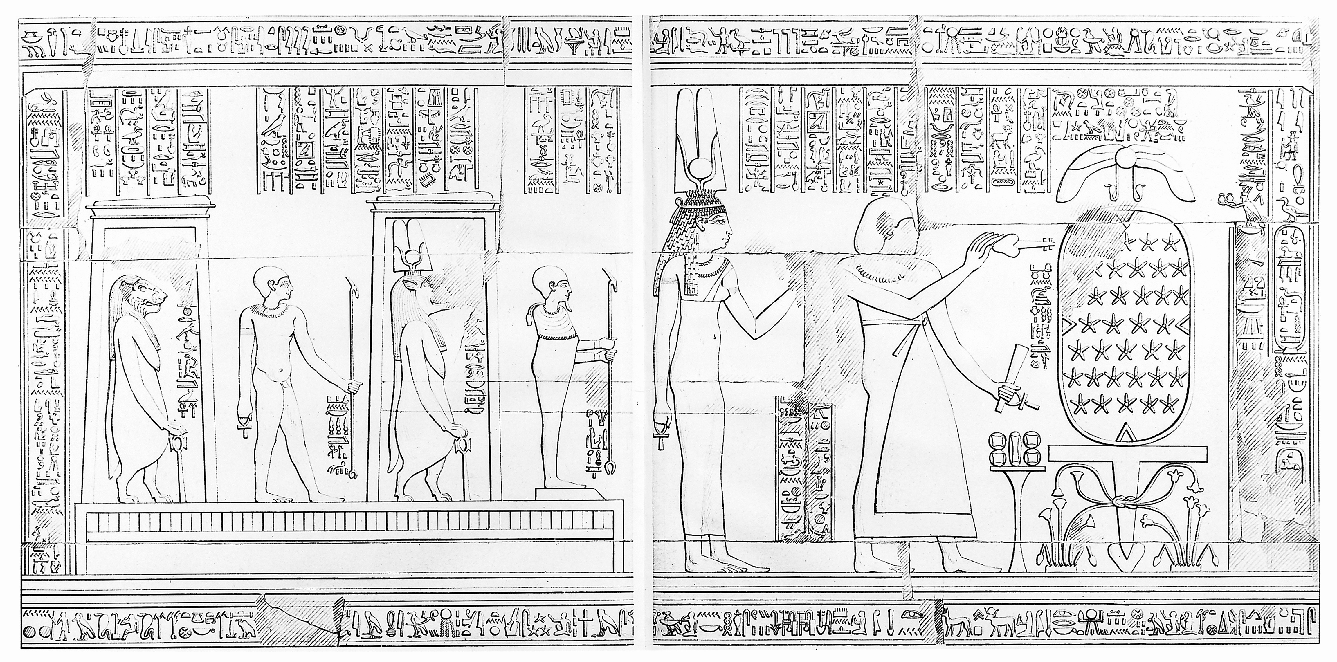 Reproductions of pencil drawings of Amenophi, Hathor and various Goddesses, inner sanctuary north wall (Plate CL), Temple of Deir-El-Bahari, Thebes. Wellcome Images Keywords: egyptology; archaeology: thebes; Hathor; Art; Amenhotep